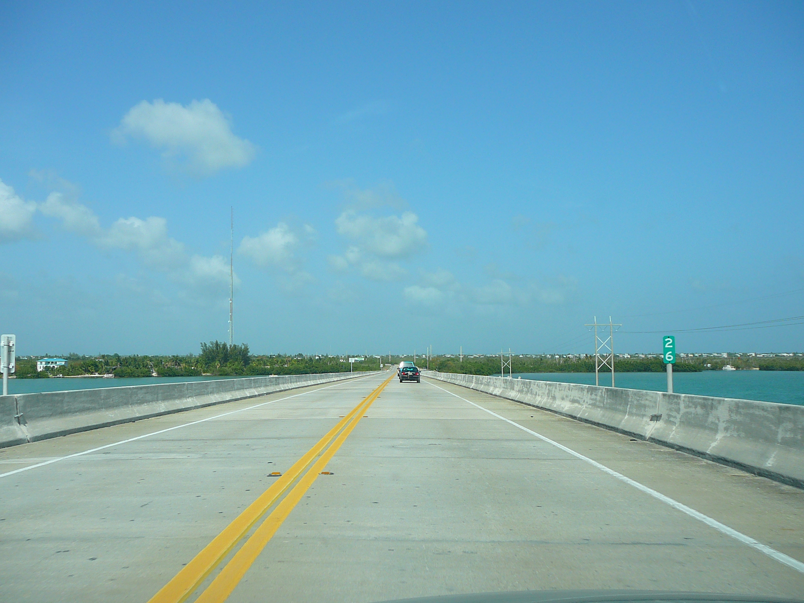 Digital photo taken by Marc Averette. Ramrod Key in the Florida Keys